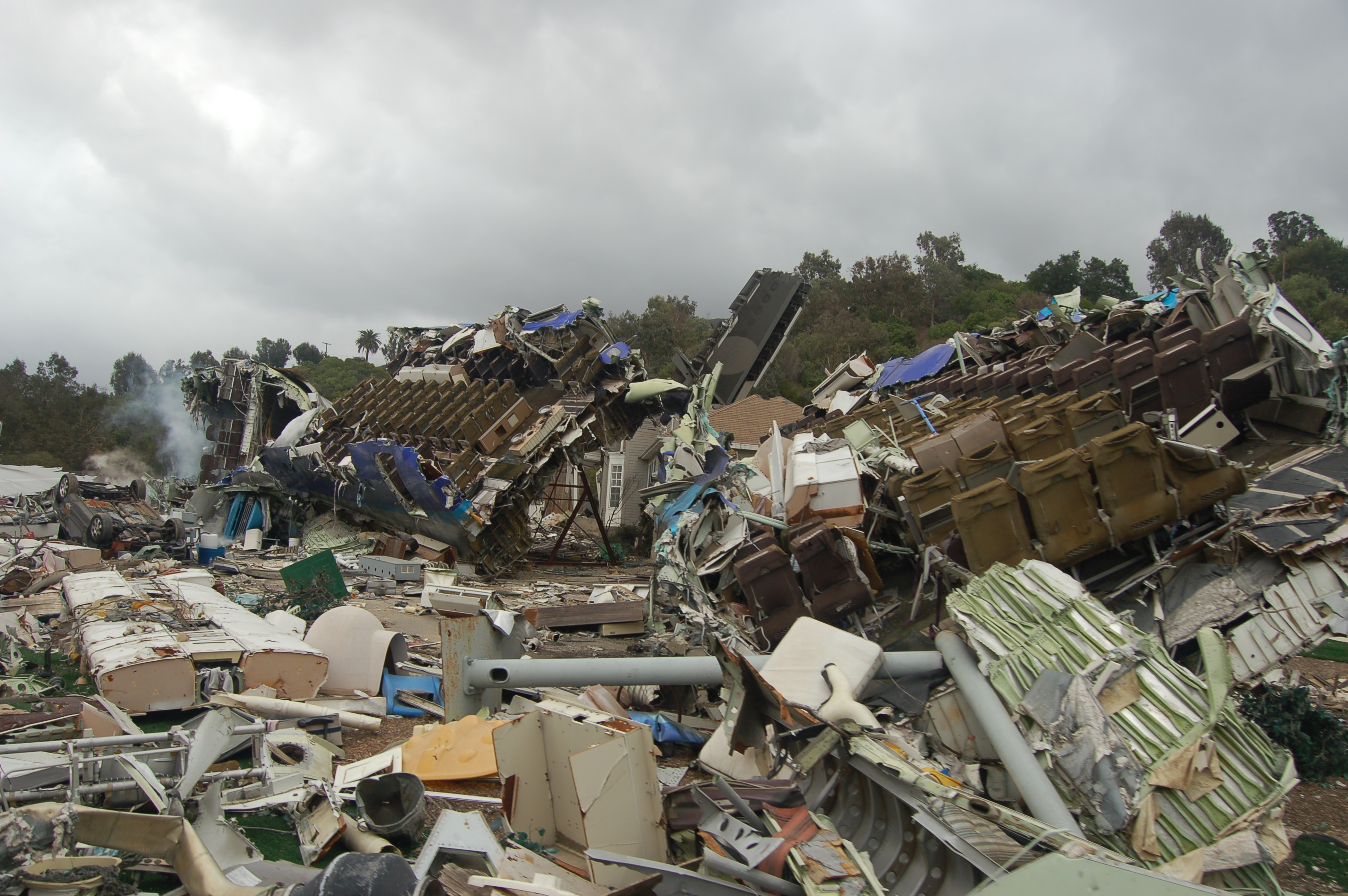 War Of The Worlds - Plane Crash Set